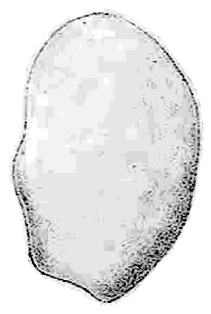 Drawing of dorsal view of the shell of Lophopleurella capensis.